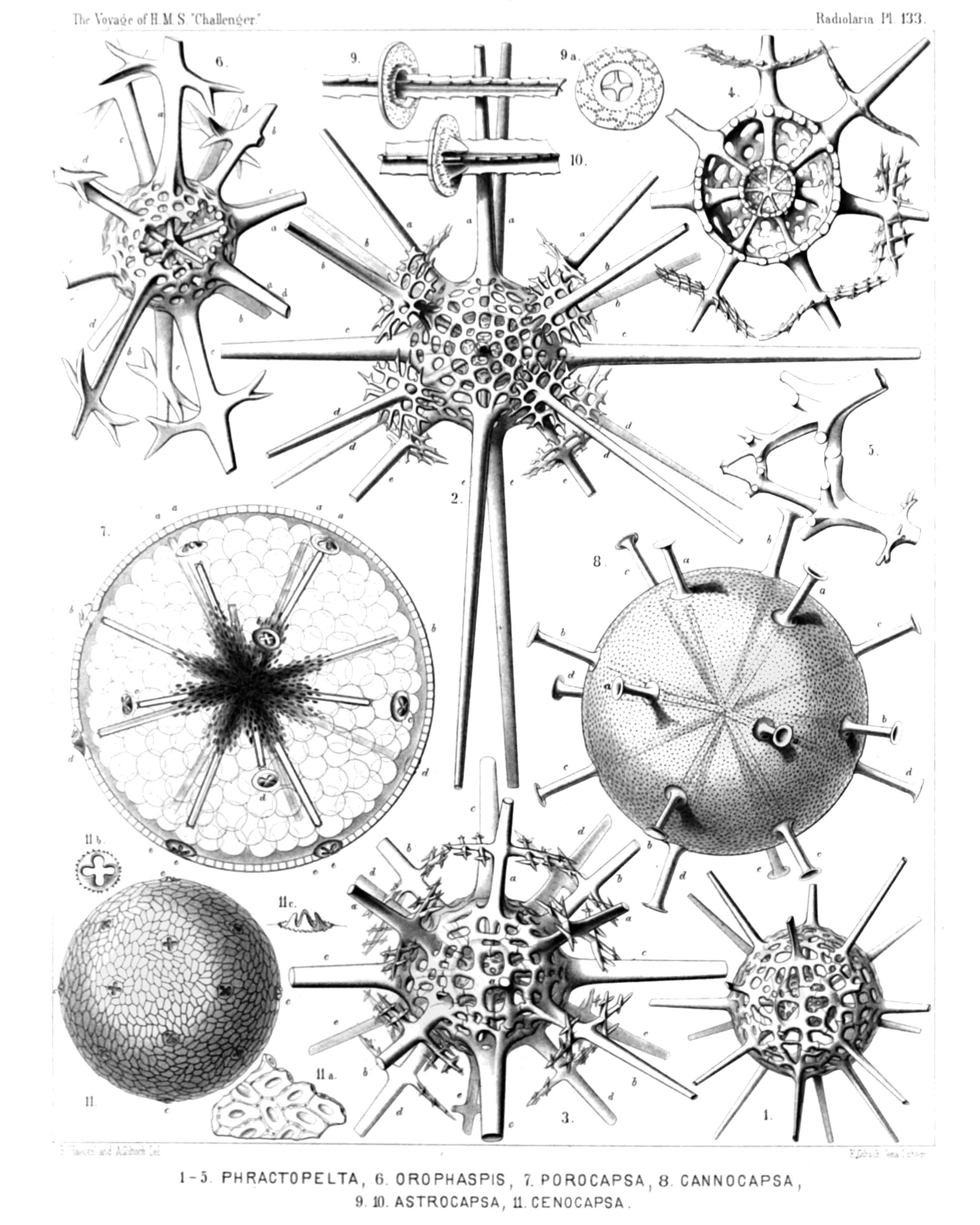 Illustration from Report on the Radiolaria collected by H.M.S. Challenger during the years 1873-1876. Part III. Original description follows: Plate 133. Sphærocapsida, Dorataspida et Phractopeltida.Diam.Fig. 1. Phractopelta dorataspis, n. sp.,×300Fig. 2. Dorypelta tessaraspis, n. sp.,×300Fig. 3. Stauropelta cruciata, n. sp.,×400Fig. 4. Pantopelta icosaspis, n. sp.,×400Meridional section through the double shell.Fig. 5. Octopelta scutella, n. sp.,×400Proximal part of two meeting spines, isolated.Fig. 6. Orophaspis furcata, n. sp.,×400Fig. 7. Porocapsa murrayana, n. sp.,×300The central capsule is filled up by spherical vacuoles and enclosed by the porous shell; in the centre radii of small granules (nuclei ?) occur.Fig. 8. Cannocapsa stethoscopium, n. sp.,×300The shell alone.Fig. 9. Astrocapsa coronata, n. sp.,×400Middle part of one spine with the four aspinal holes.Fig. 9a. Transverse section of a radial spine, w ith the four surrounding aspinal holes and the neighbouring part of the shell,×400Fig. 10. Astrocapsa stellata, n. sp.,×400Part of one spine, with the aspinal holes and their four triangular teeth.Fig. 11. Cenocapsa nirvana, n. sp.,×200The entire shell, with its pavement of small plates and the twenty cruciform perspinal holes.Fig. 11a. A group of small ovate plates which compose the shell; in each plate a dimple with a porule,×400Fig. 11b. A cruciform perspinal hole, seen from the face,×400Fig. 11c. A cruciform perspinal hole, with its four teeth, seen in profile,×400